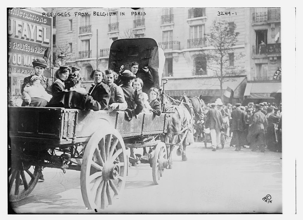 Refugees from Belgium during World War I in Paris, France.